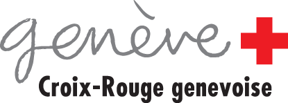 Logo of the La Croix-Rouge genevoise (CRG)